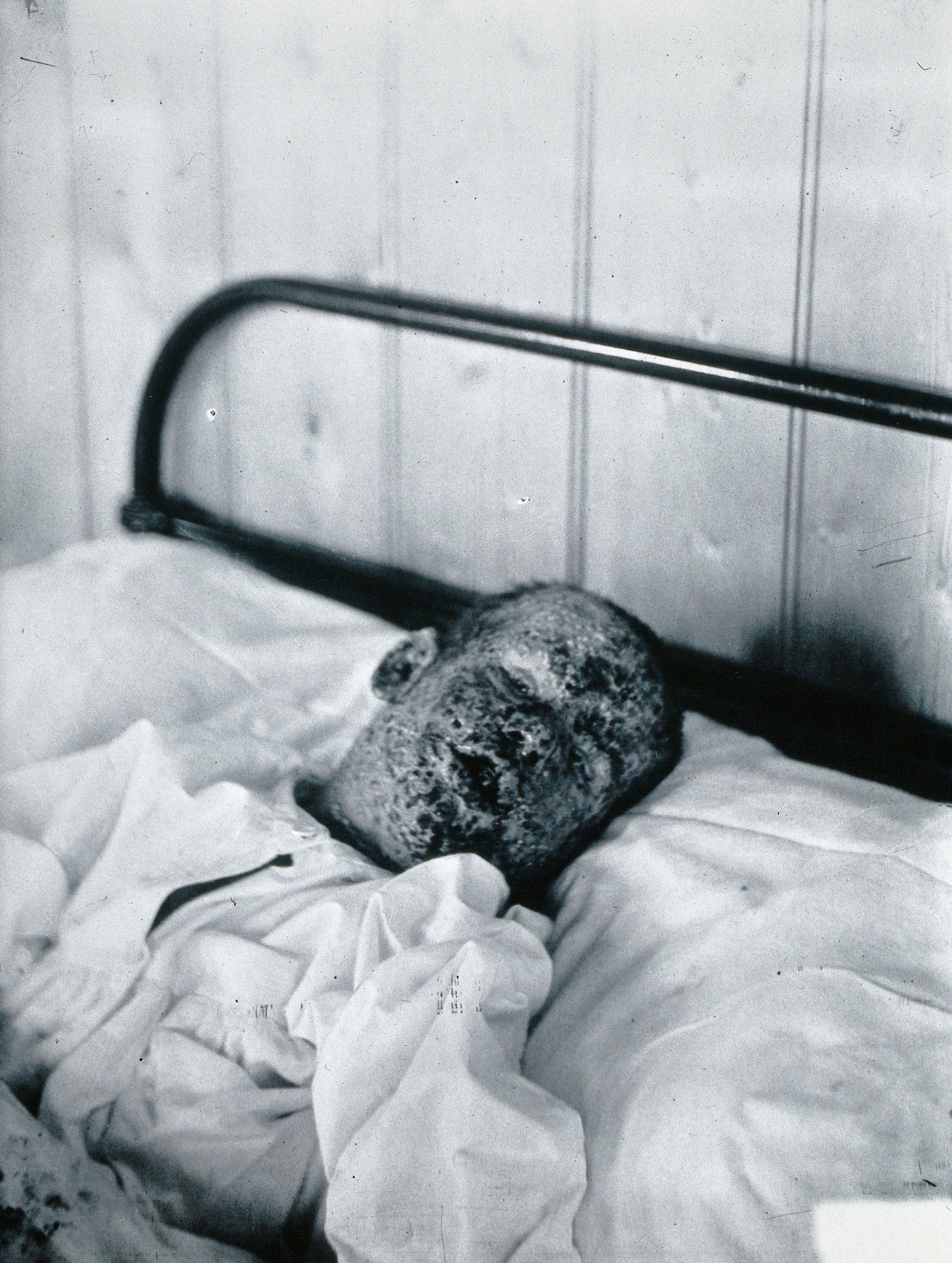 Gloucester smallpox epidemic, 1896: Henry Wicklin, aged 6 years, as a smallpox patient. Photograph by H.C.F., 1896. Iconographic Collections Keywords: diseases: smallpox, 1896; name; diseases: smallpox; i. c. collection. young child; Henry Wicklin; i.c.